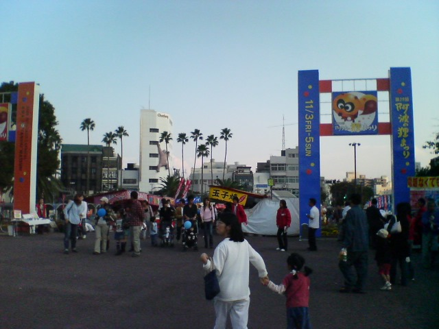 The Raccoon-dog Festival in AWA (阿波の狸まつり, AWA no Tanuki Matsuri), at Aibahama Park, Tokushima city, Japan.